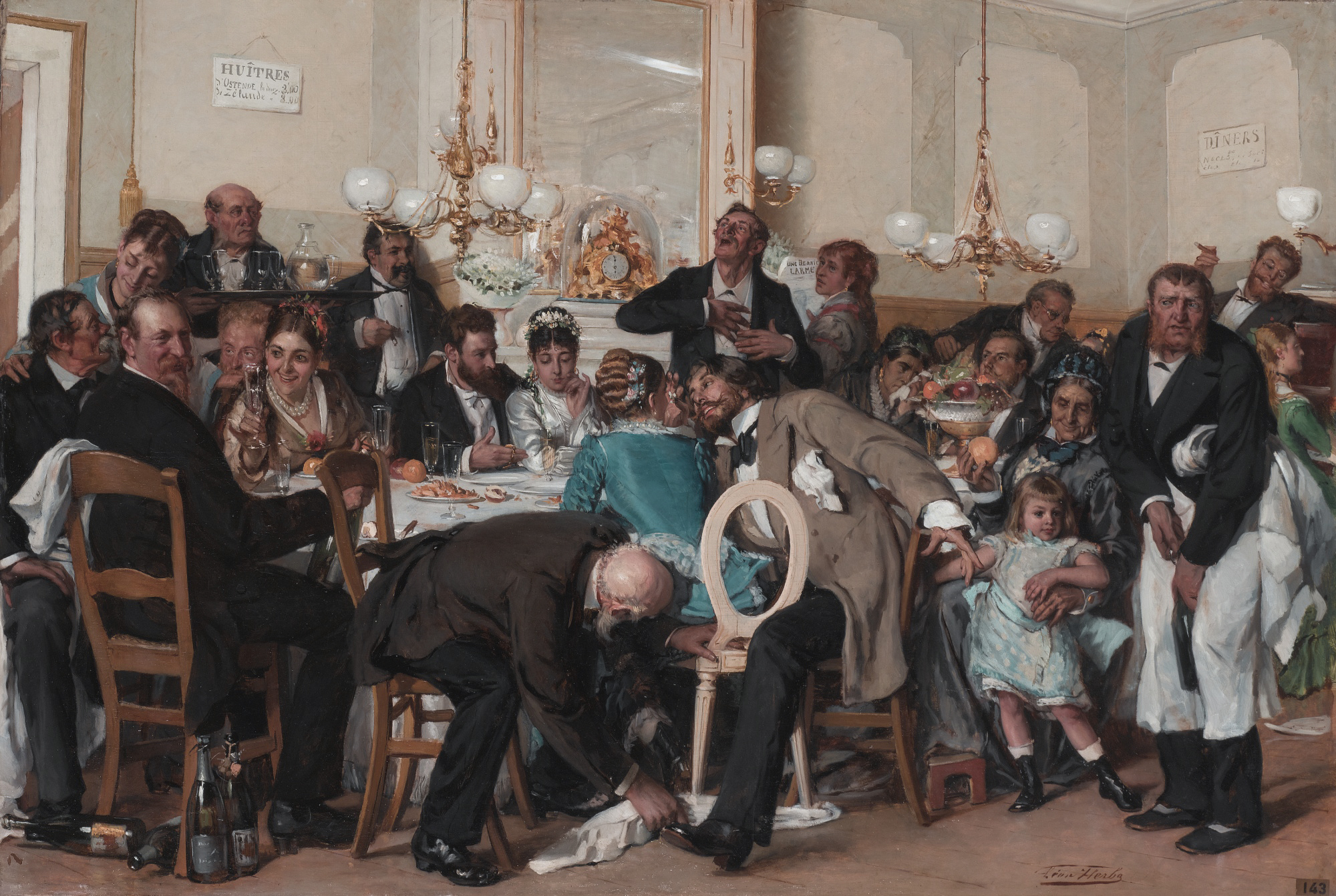 The wedding feast oil on canvas 100 x 145.1 cm signed b.r.: Léon Herbo